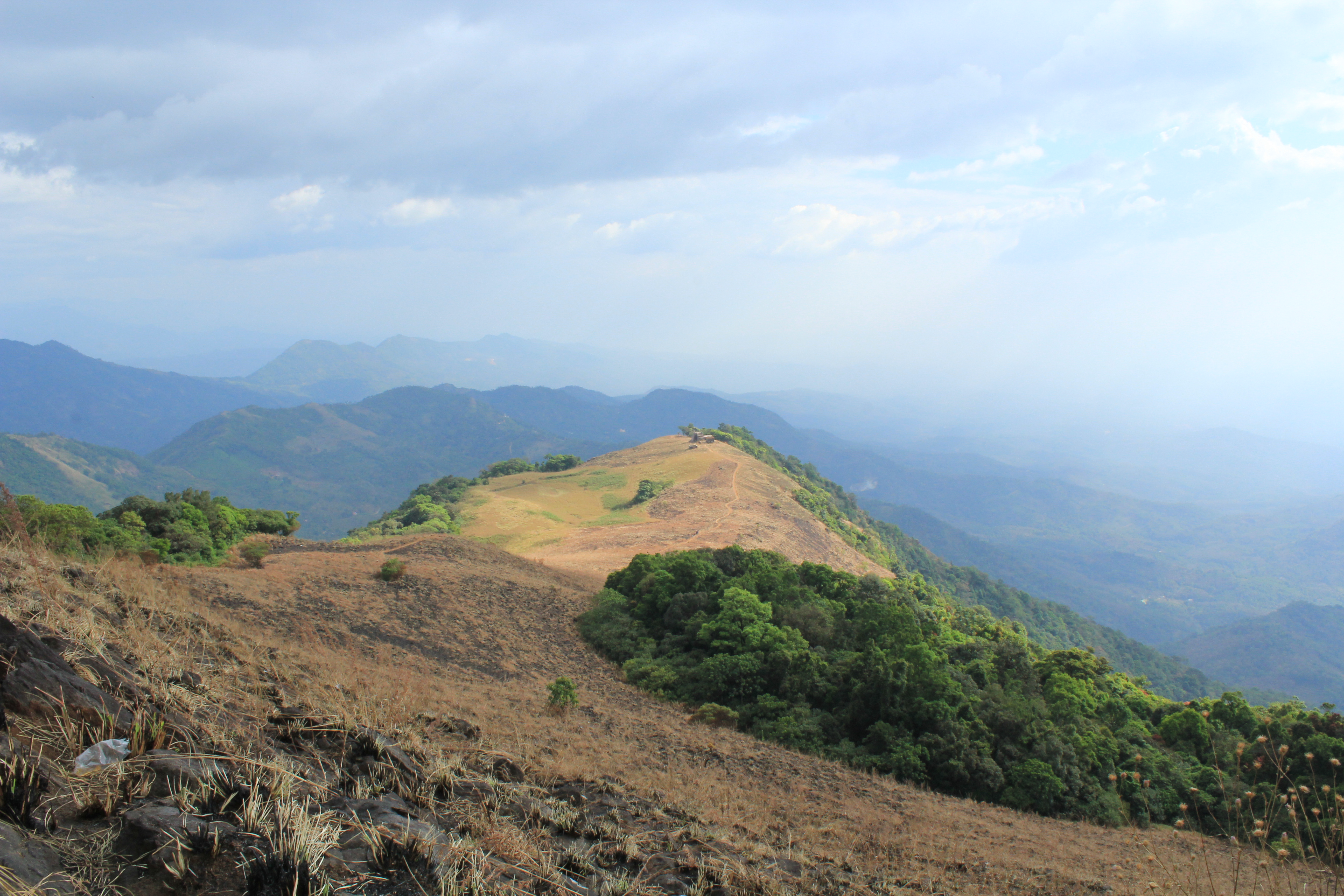 pythalmala